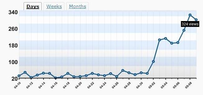 My Website Visitor Grafik